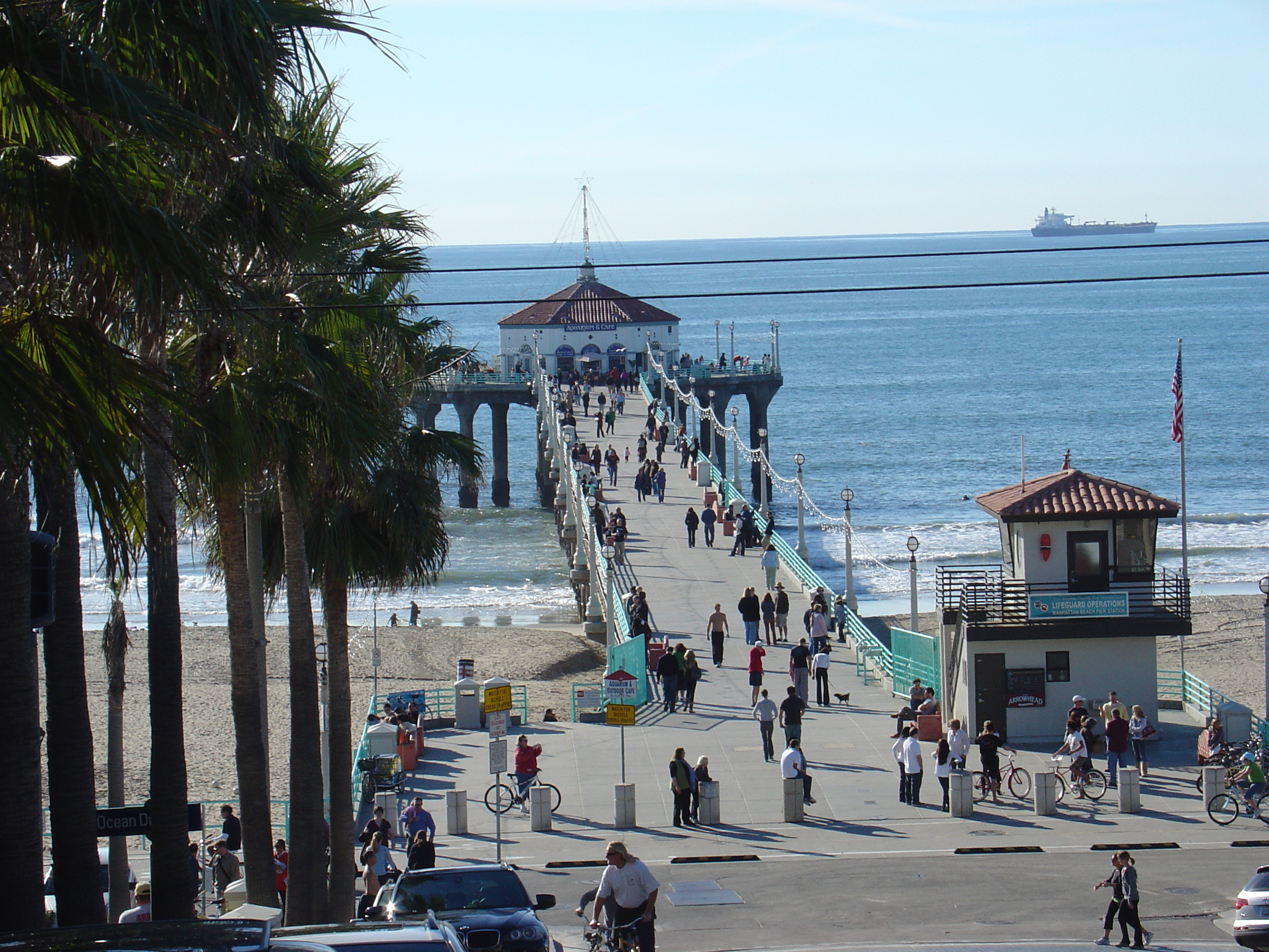 Manhattan Beach Pier 2008, ChildofMidnight, please attribute